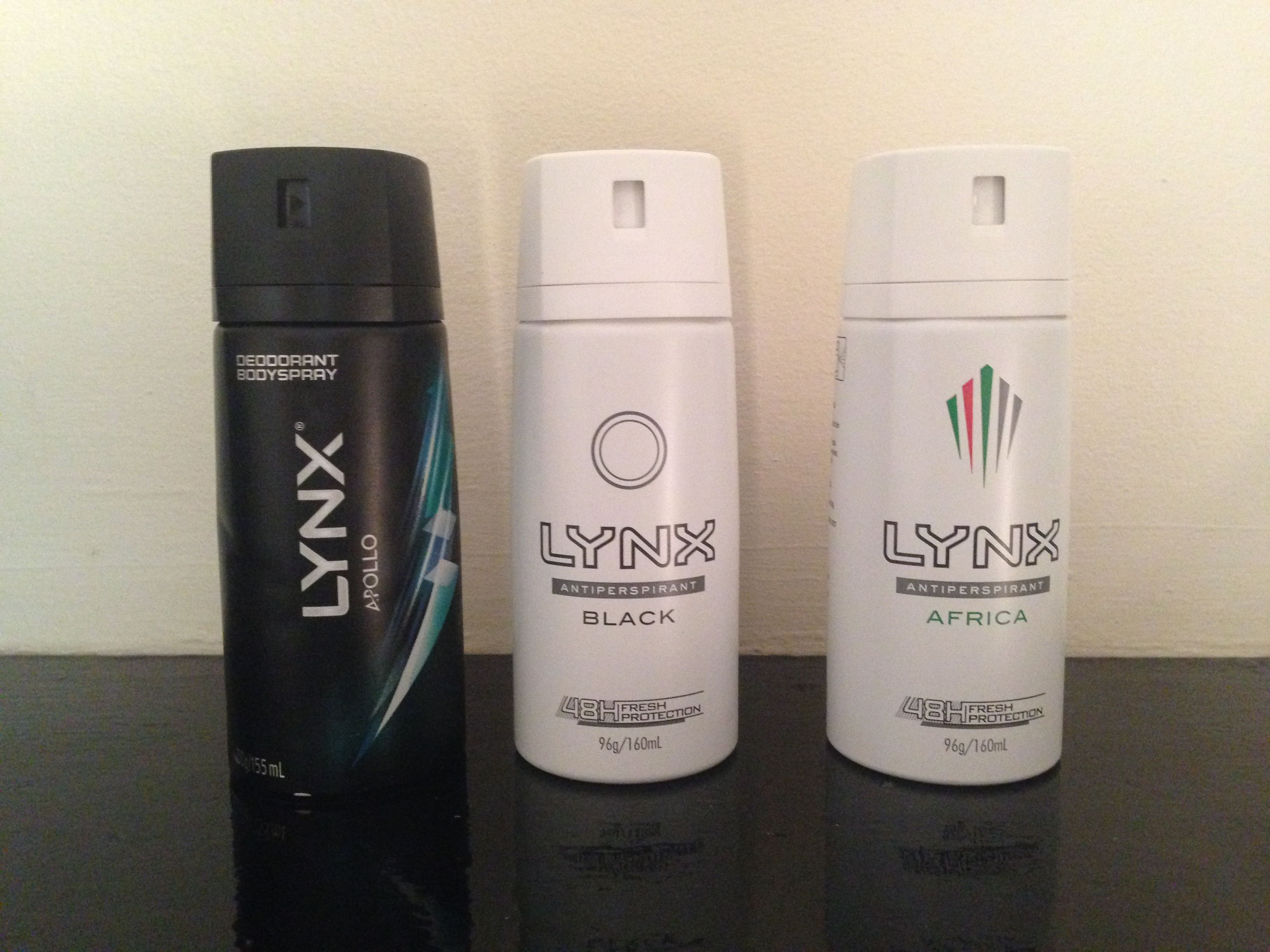 A collection of Lynx deodorants; from left to right there is Apollo, Black then Africa.